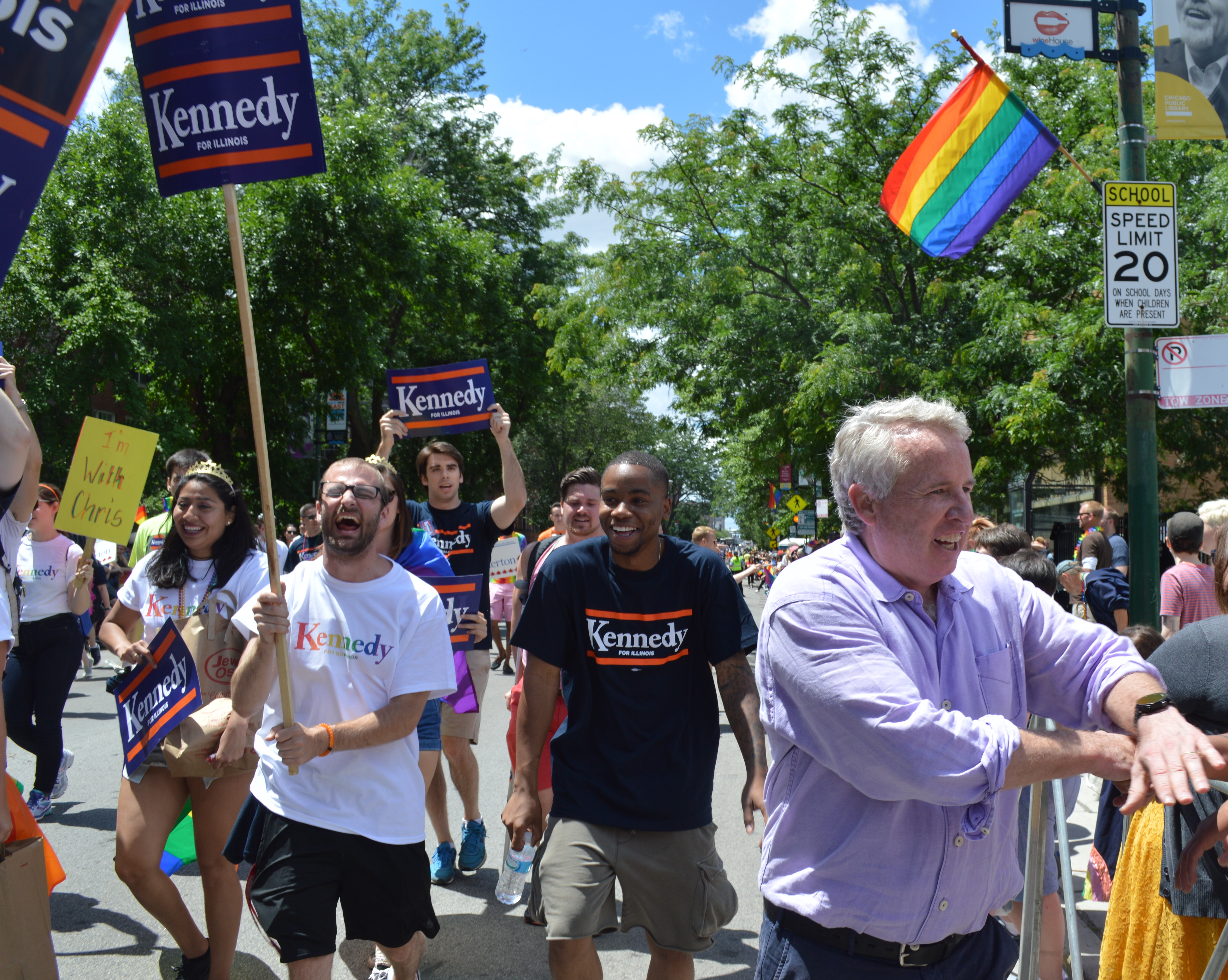 Chris Kennedy at Pride Parade.